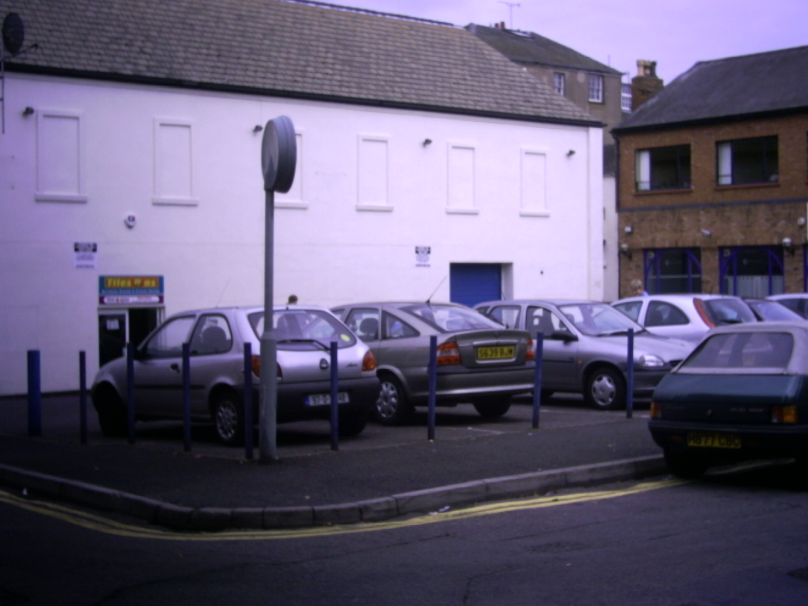 A photo of the site of the second spring in Leamington Spa. Taken by CLS14.